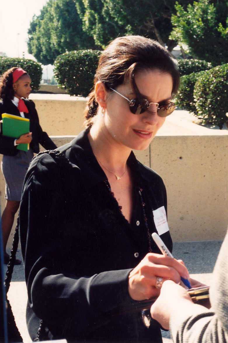 Sela Ward signs autographs for fans outside the Emmy rehearsal 9/10/94